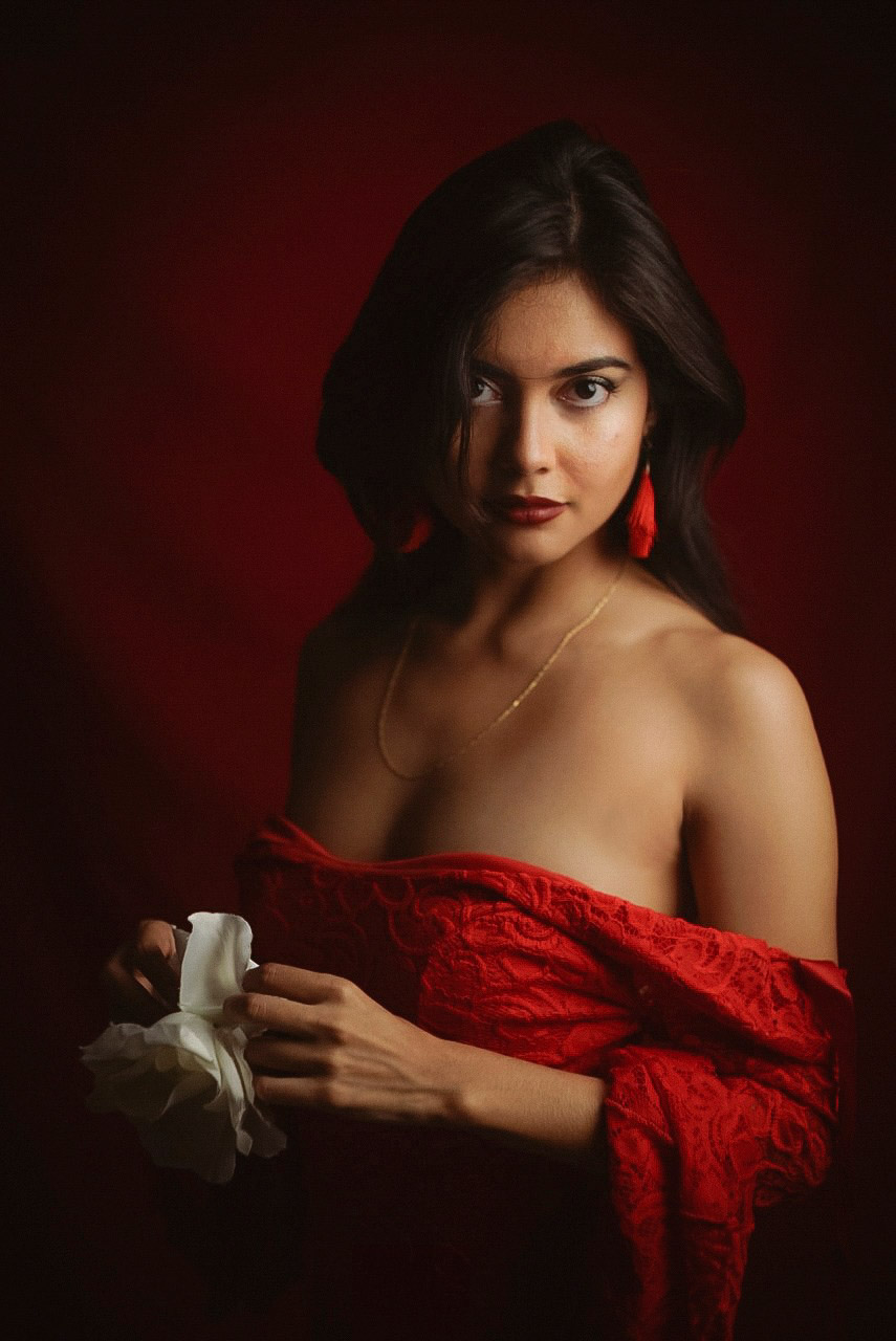 Picture of a photoshot made in 2019 using Lucia's dress, part of her Flamenco kit.